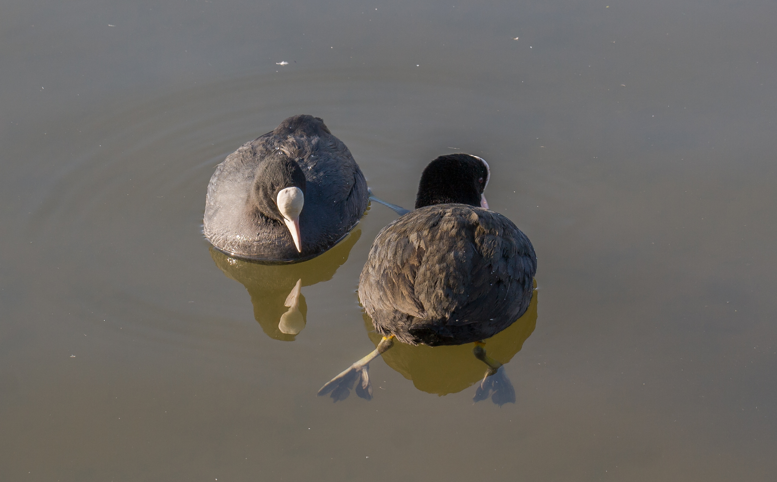 Eurasian Coot (Fulica atra), Nymphenburg Palace, Munich, Germany